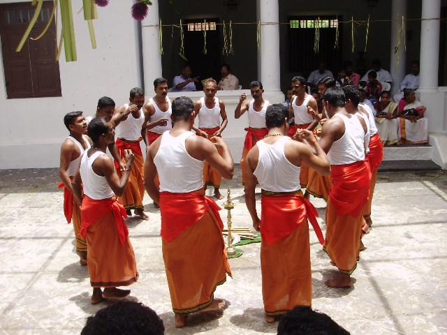 traditional art form of malaarayan